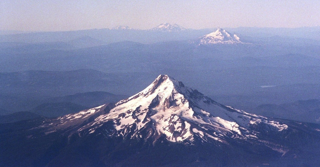 Aerial view of Mt. Hood, Mt. Jefferson, and the Three Sisters, in the state of Oregon, USA - looking south toward the mountains.